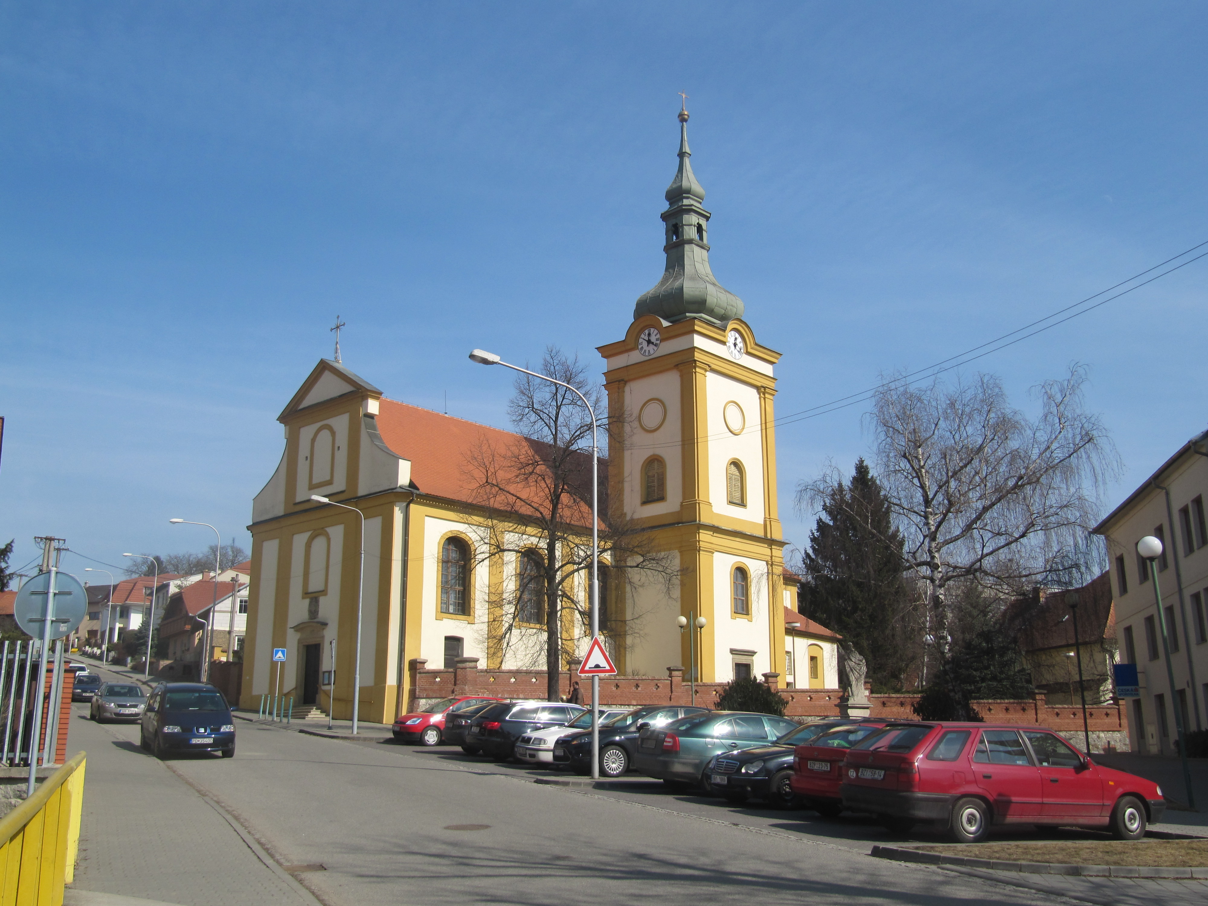 Šlapanice in Brno-Country District, Czech Republic. Church.